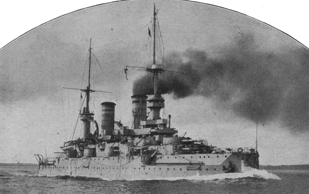 The German pre-dreadnought SMS Kaiser Karl der Große.